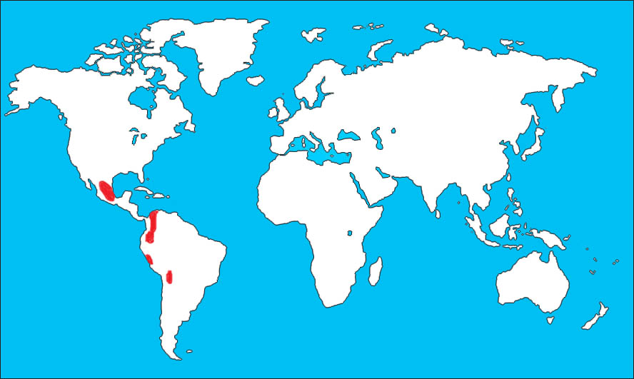 Range map for Ara militaris.